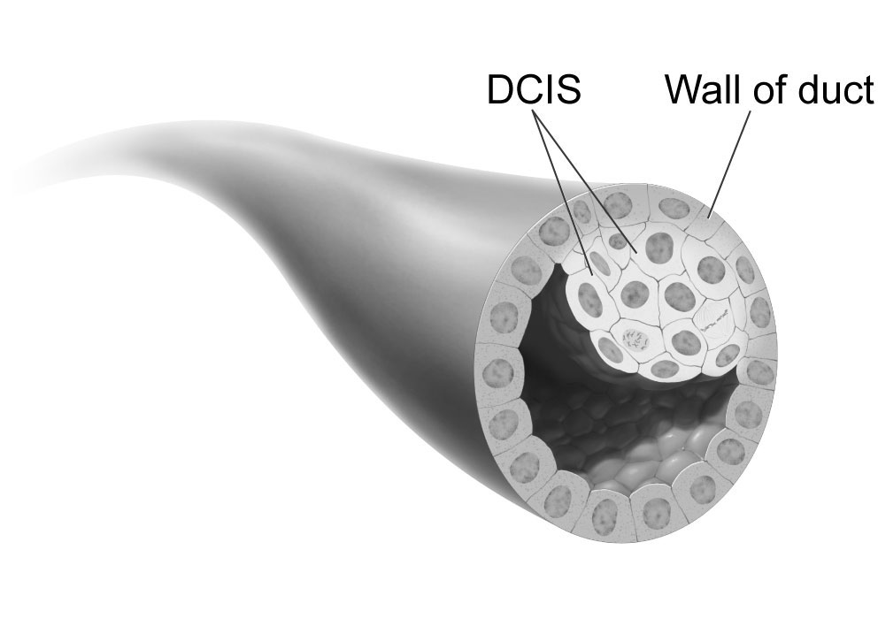 Title: Anatomy: Breast Cancer, Ductal Carcinoma in Situ Description: Breast duct: Shown is a drawing of a breast duct containing ductal carcinoma in situ (DCIS). Subjects (names): Topics/Categories: Graphics -- Illustration Type: B&W Source: National Cancer Institute (NCI) Author: Don Bliss (artist) Date Created: 2005 Date Added: 9/20/2007 Reuse Restrictions: None - This image is in the public domain and can be freely reused. Please credit the source and/or author listed above.